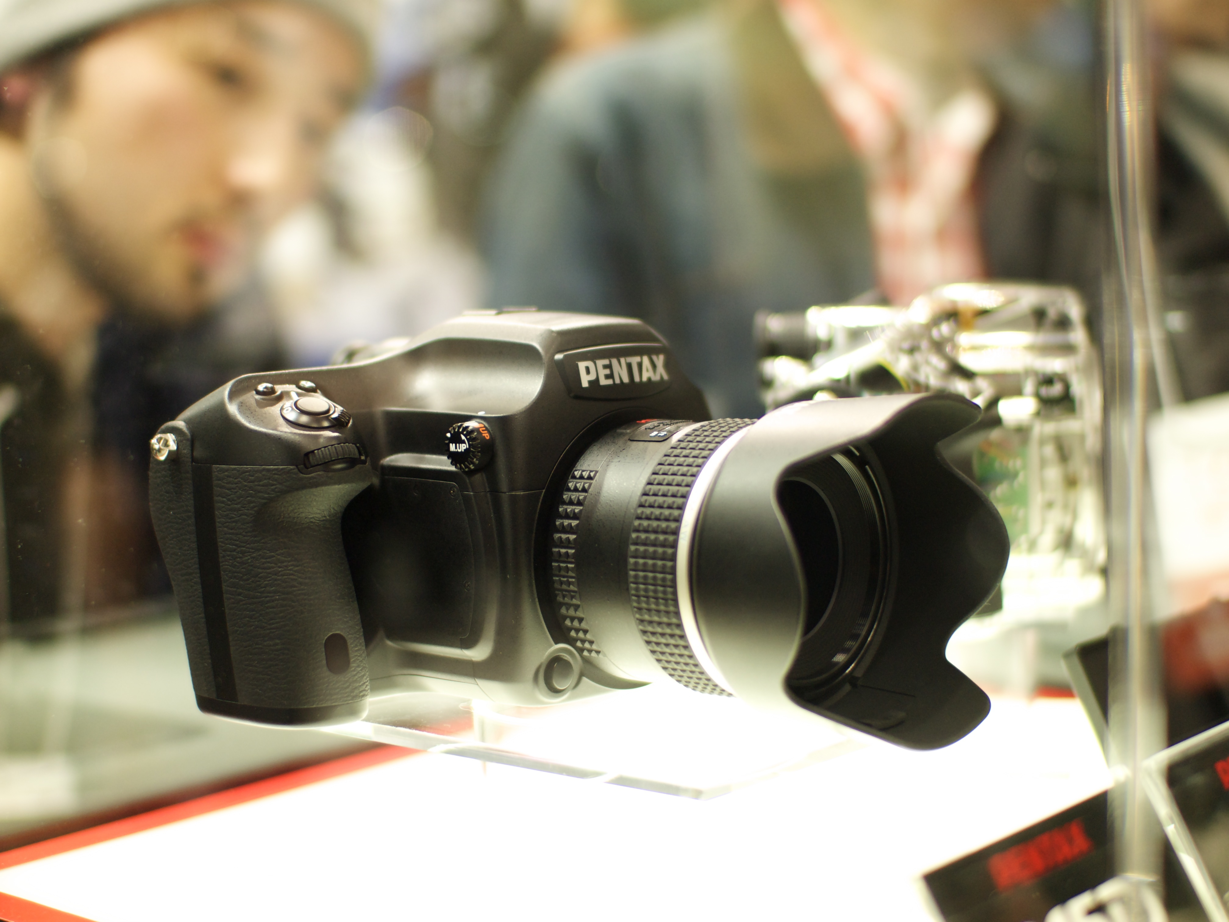 Pentax 645D DSLR camera.